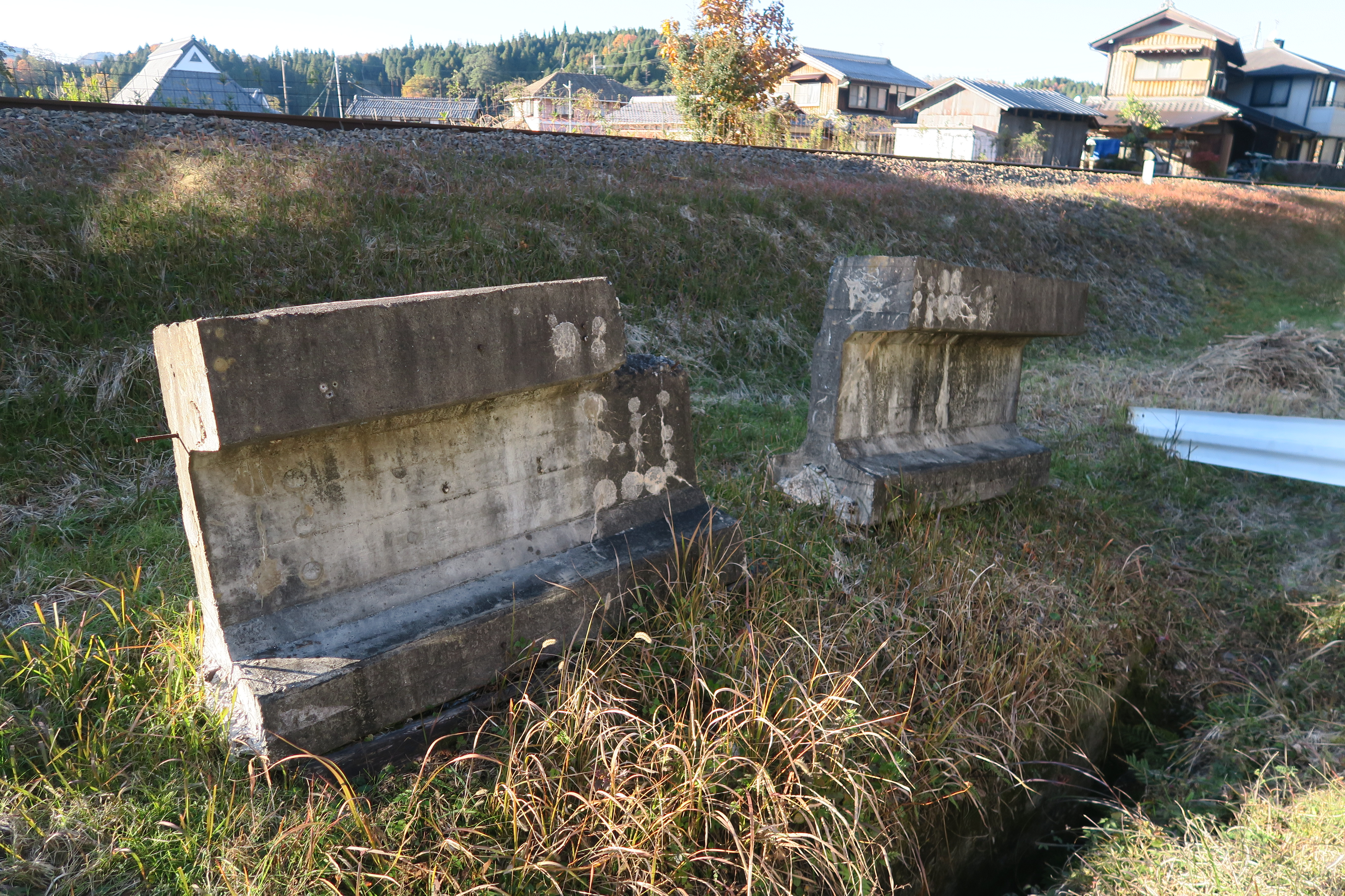 Daiichi Daido-gawa bridge, Shigaraki, Koka, Shiga, Japan. The first Prestressed Concrete Bridge in Japan.